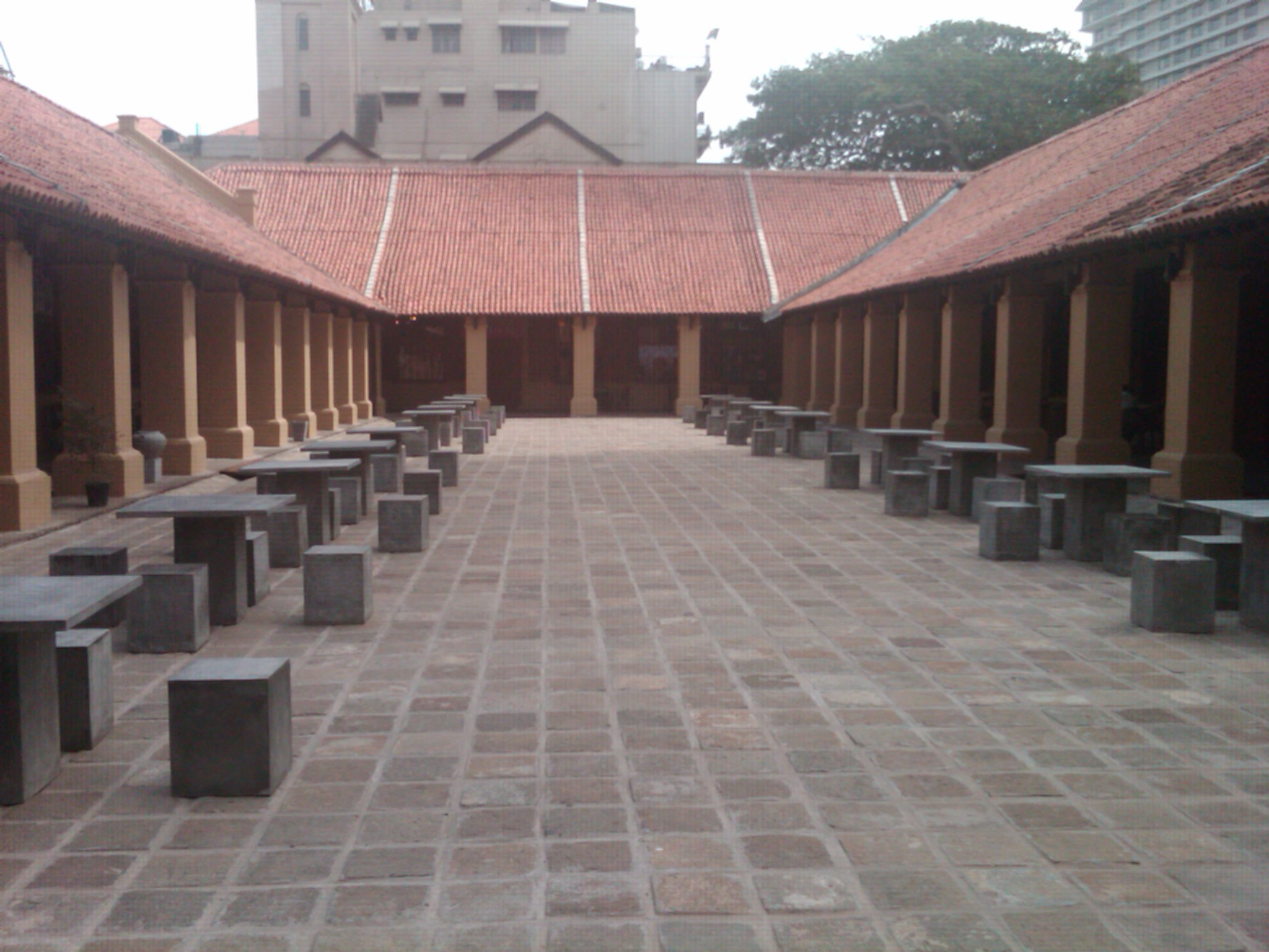 Dutch colonial era hospital in Colombo, Sri Lanka, established in 1637. In 2011 it was converted into a shopping mall.